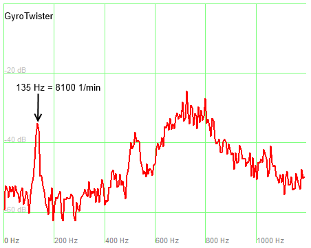 Sound level of a running GyroTwister (135 Hertz = 8100 rpm) over the frequency.